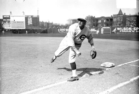 Max Flack, Cubs, c. 1920 Notice the scoreboard featuring the "Doublemint Twins" atop it